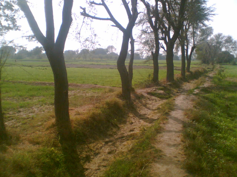 Winter is cold and fields go green as the farmers grow wheat and other seasonal vegetables for us folks..